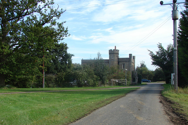 Gatehouse to Wallington Hall in Norfolk! There are two Wallington Halls